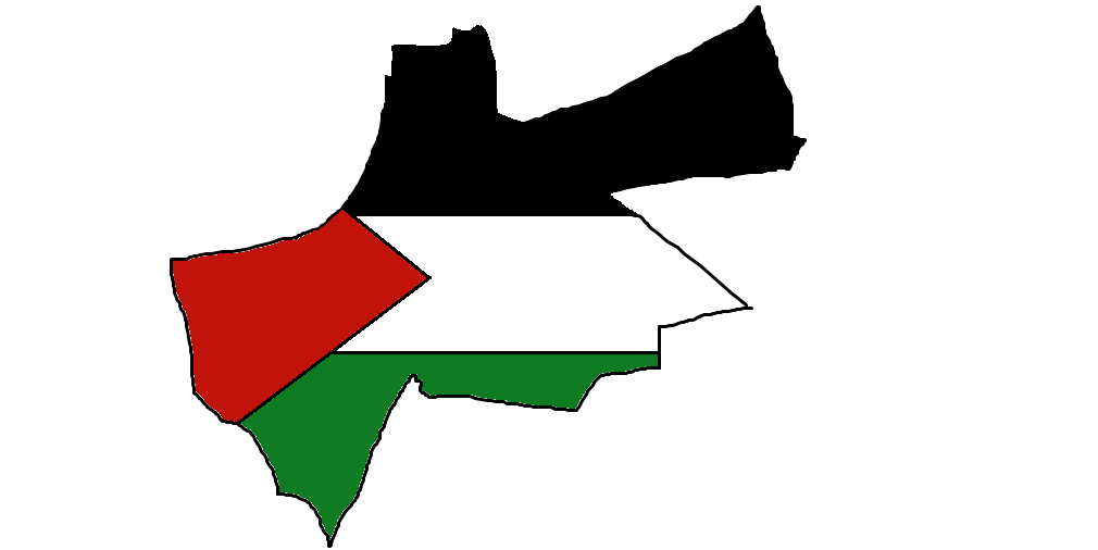 Map of Great Palestine (1948 territories, West Bank, Gaza Strip, Jordan, Sinai Peninsula, Golan Heights)